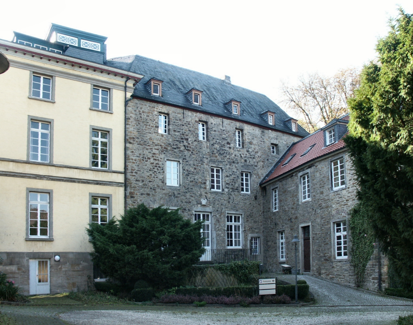 Description: Schloss Schellenberg - part of the main building with château-like extension Capture date: 13. Oct. 2005 Photographer: Sir Gawain